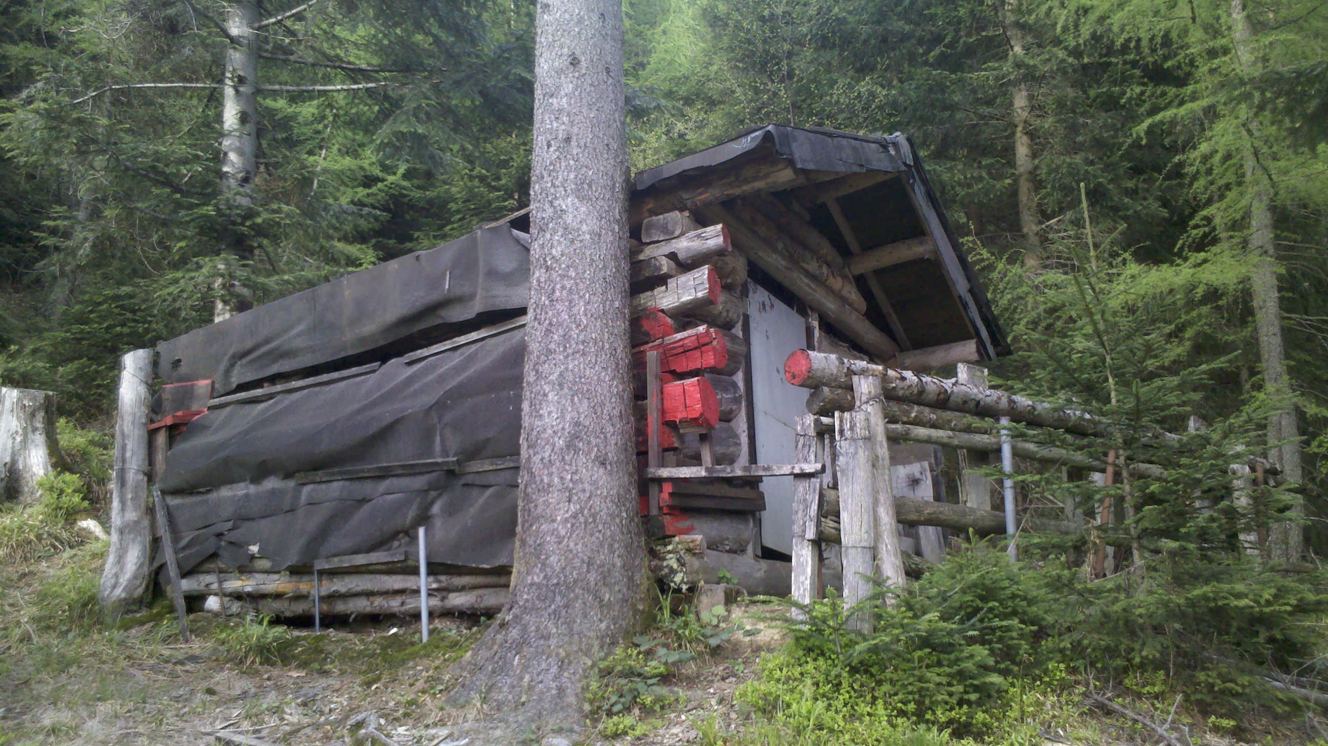 Mountain hut at the foot of Schweinberg